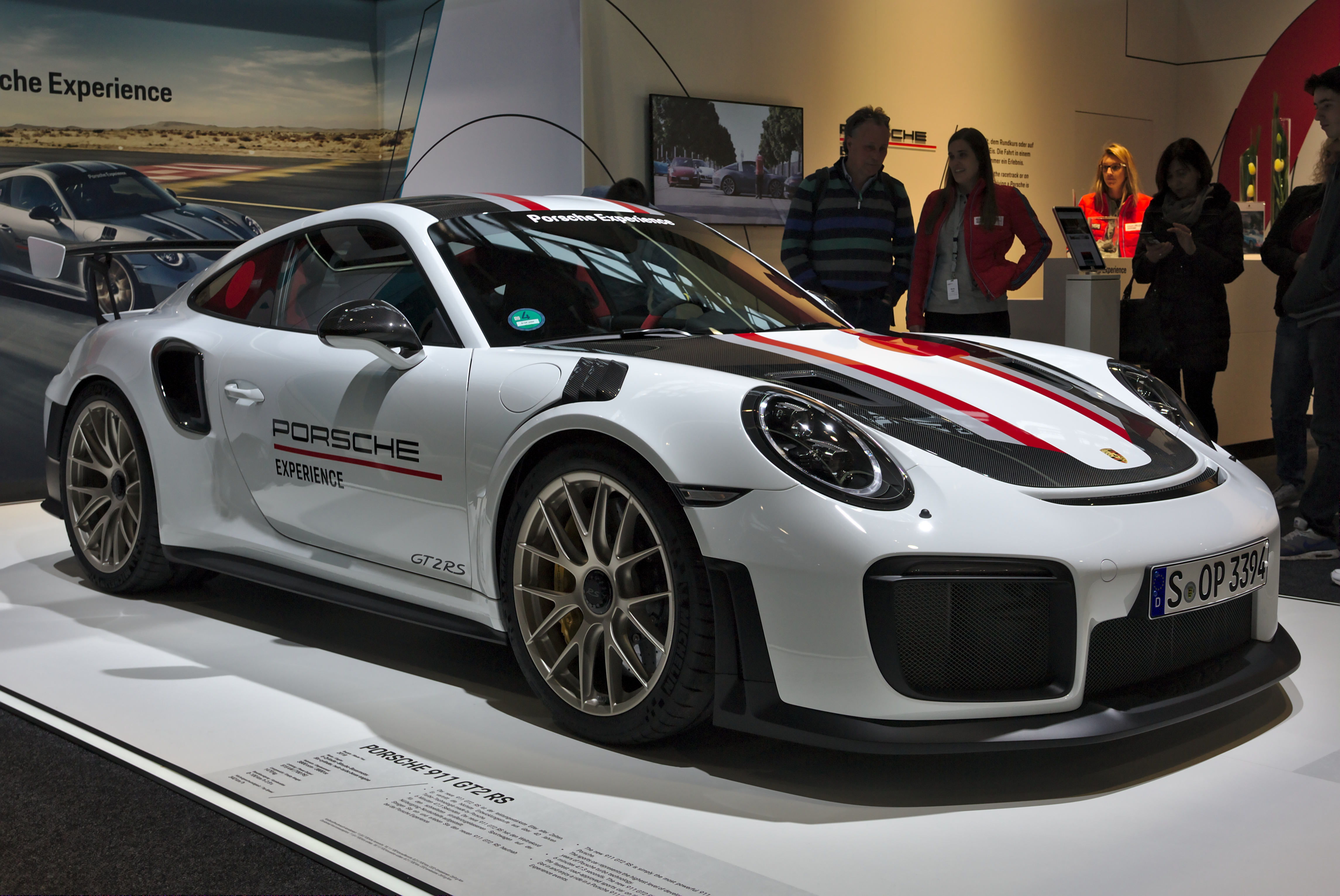 Porsche 911 GT2 RS at Retro Classics 2018